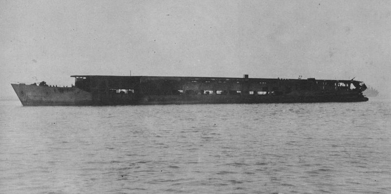 Imperial Japanese Army oiler, Type Toku-2TL wartime standard ship Yamashio Maru